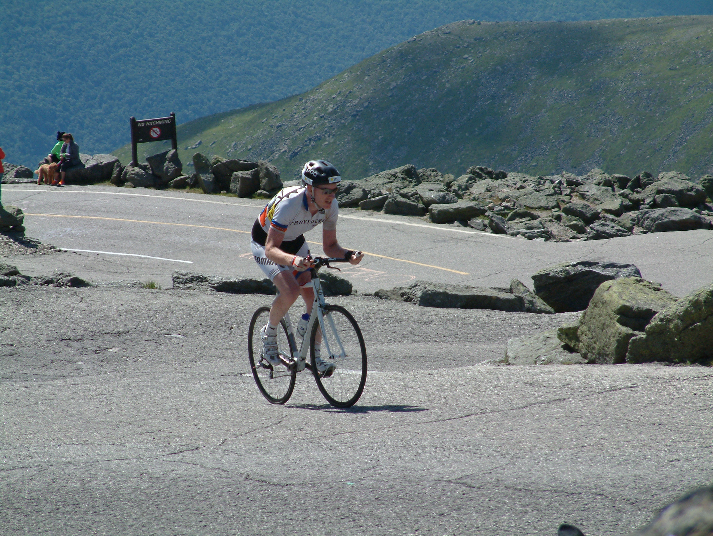 A photo of a cyclist competing in the 2014 Newton's Revenge Bicycle Race, up Mt. Washington, New Hampshire, July 12, 2014.